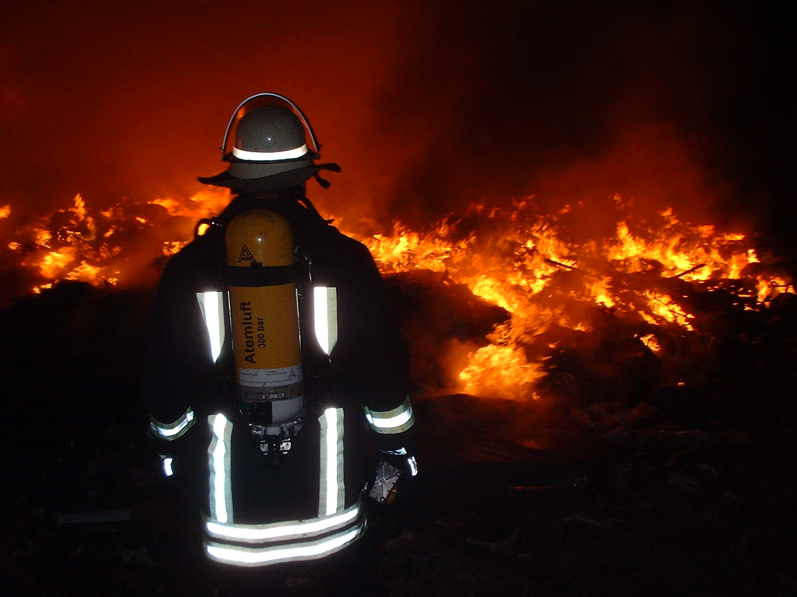 German Firefighter